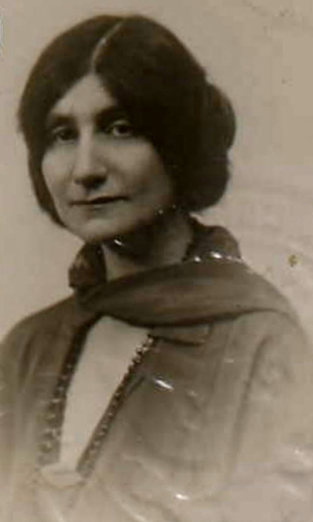 Alice Lewisohn Crowley, 1925 passport photo.